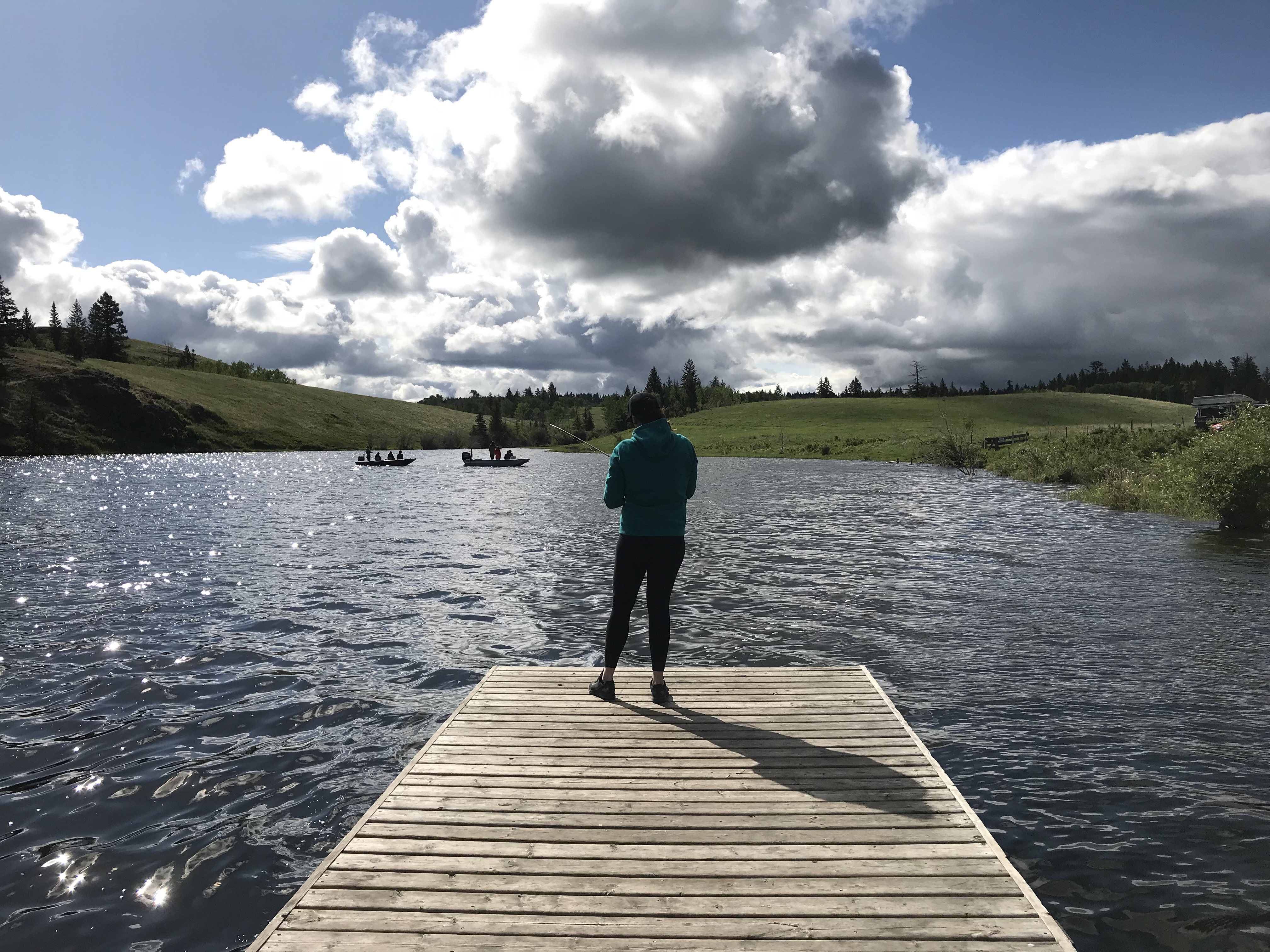 Fishing at Edith Lake